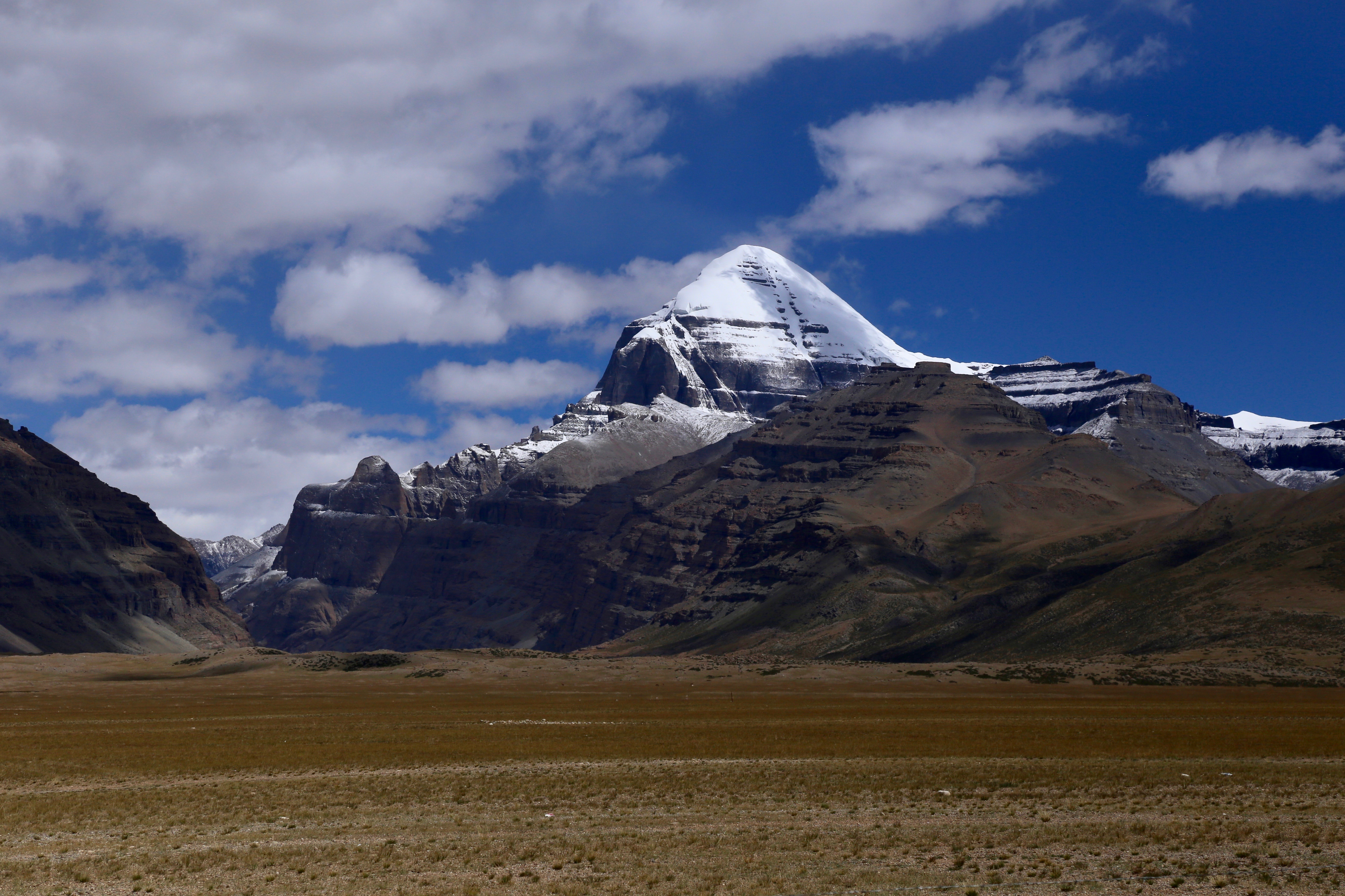 Mount kailash from Barkha plain.